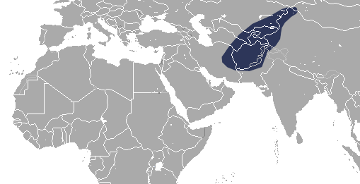 Gmelin's White-toothed Shrew (Crocidura gmelini) range